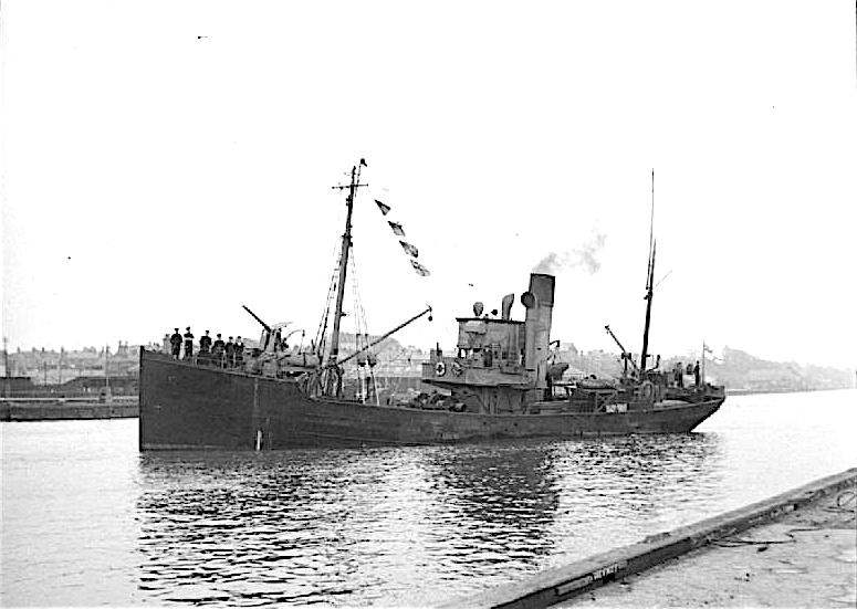 Hmt Cardiff Castle Underway.